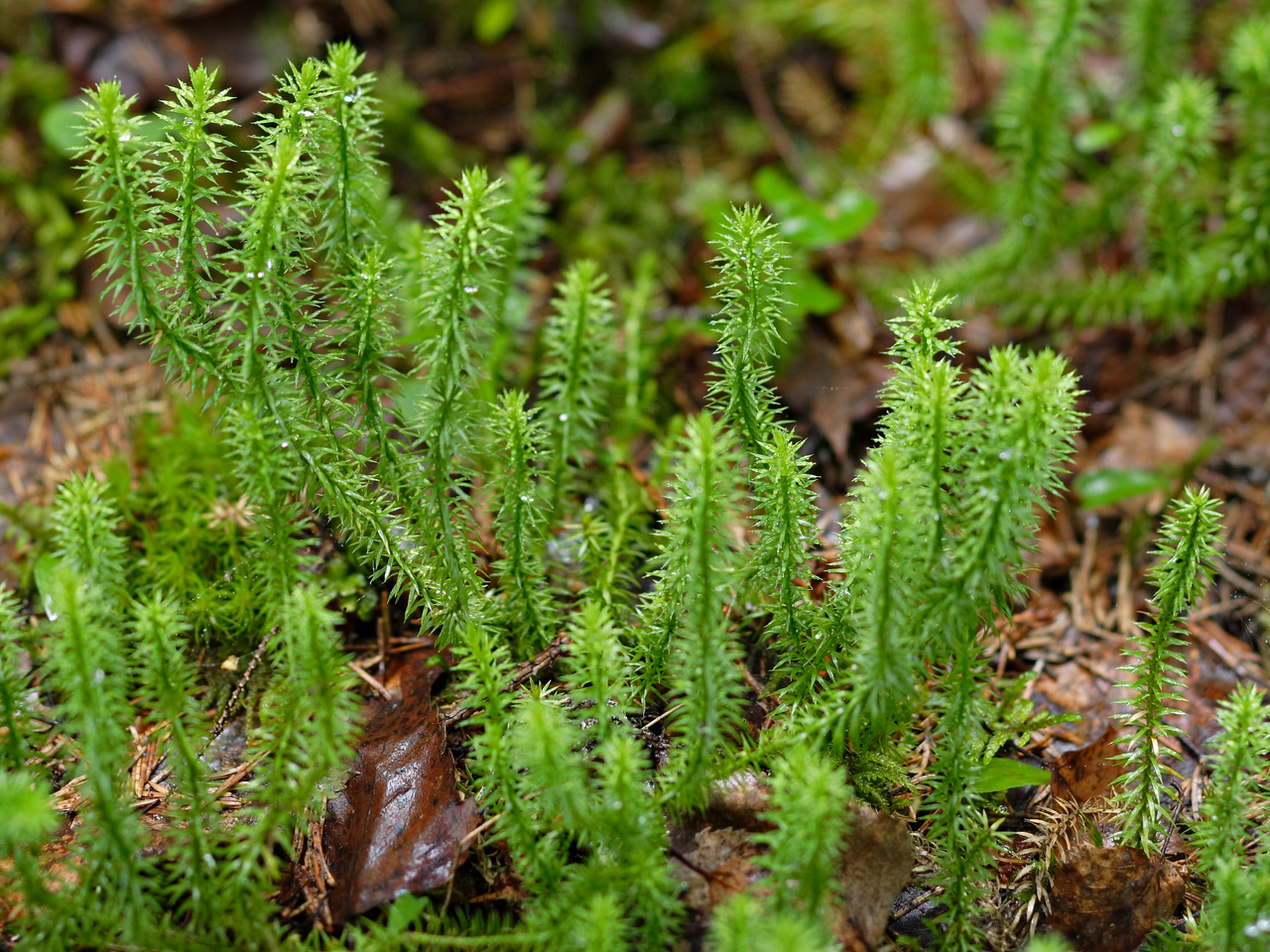 Lycopodium annotinum Dysmorodrepanis 11:12, 28 May 2008 (UTC)